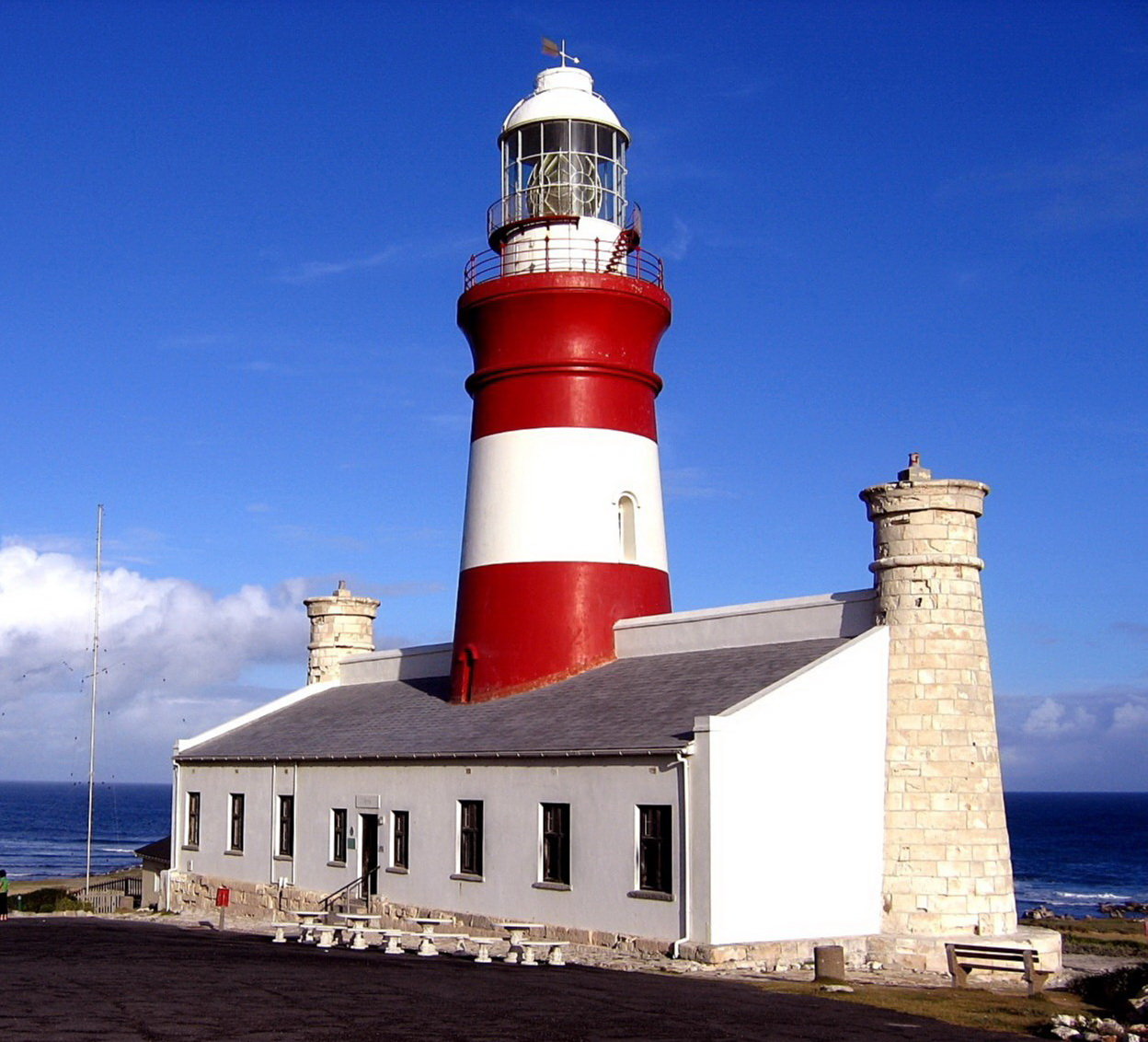 Lighthouse at Cape Agulhas, the most southern tip of Africa This media shows a South African Protected Site with SAHRA file reference 9/2/013/0008.